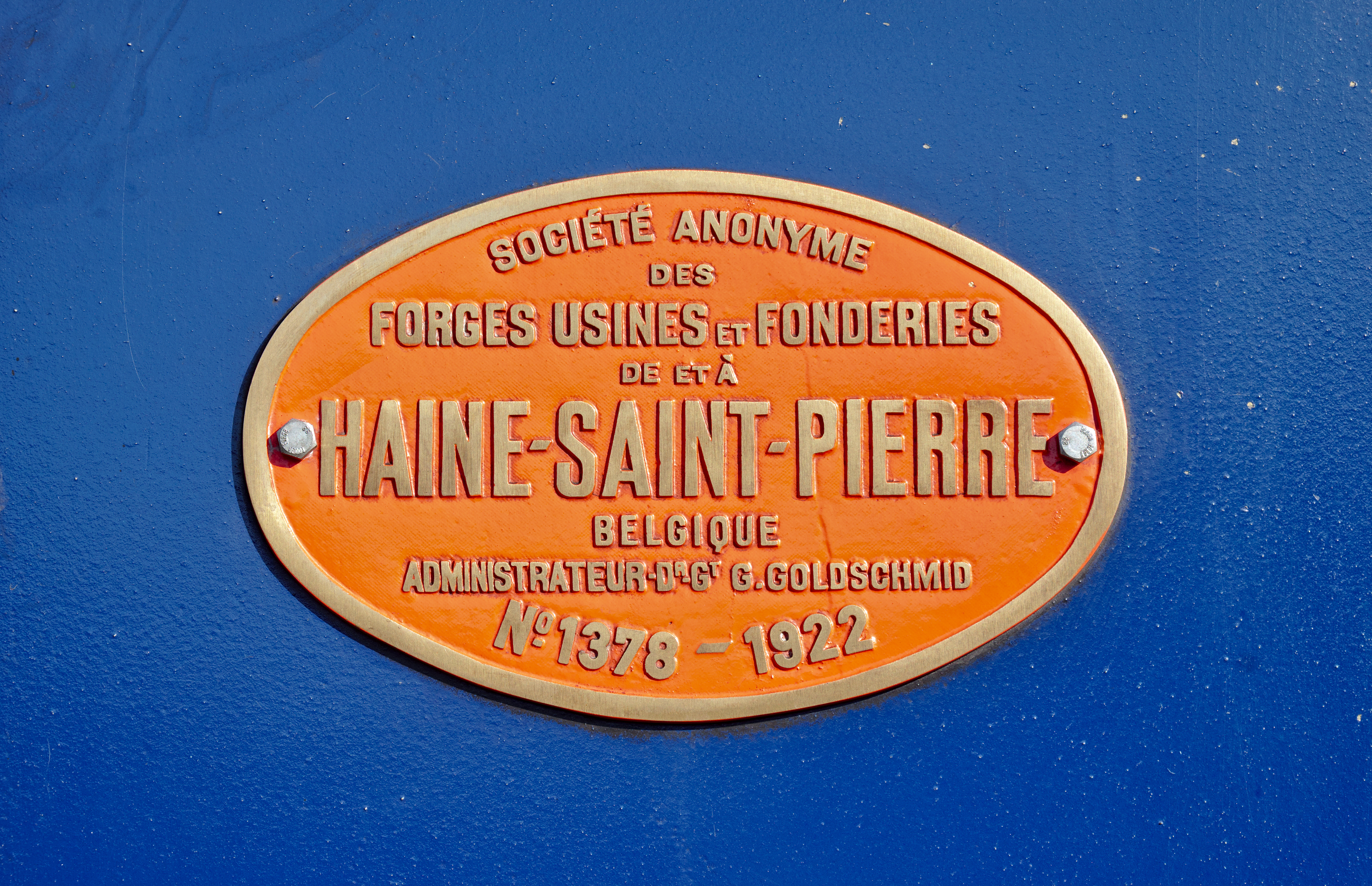 Plaque of steam locomotive Haine-Saint-Pierre No. 1378-1922 in Baasrode-Noord train station, Dendermonde This photo of movable heritage has been taken in the Flemish Region